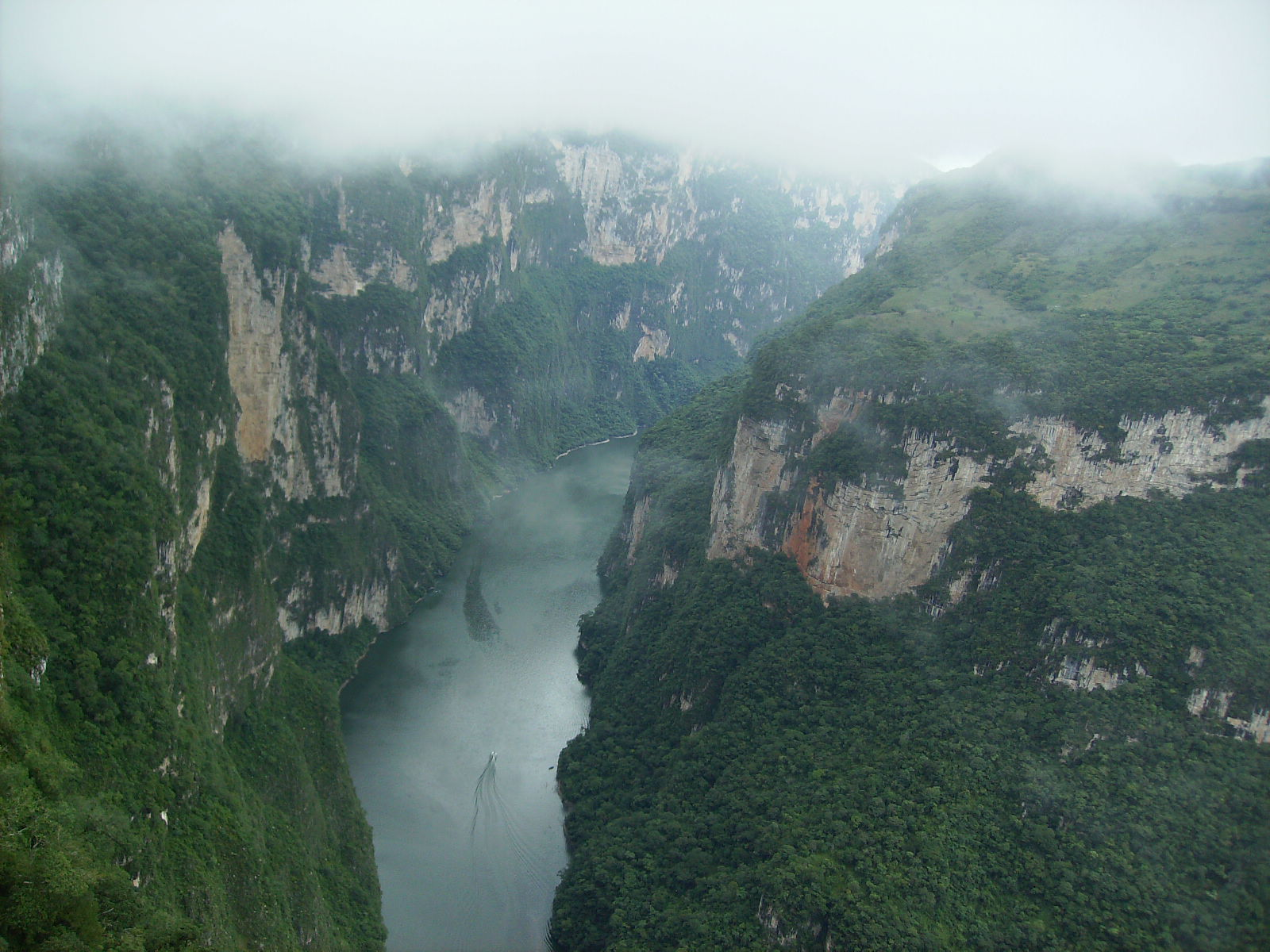 A cloud level view from the top of the Sumidero Canyon — in the state of Chiapas, Southwestern Mexico. With the Grijalva River in Sept. 2007. My own work.